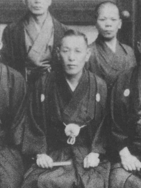 Sutekichi Nakai (Shogi players). taken in 1939.